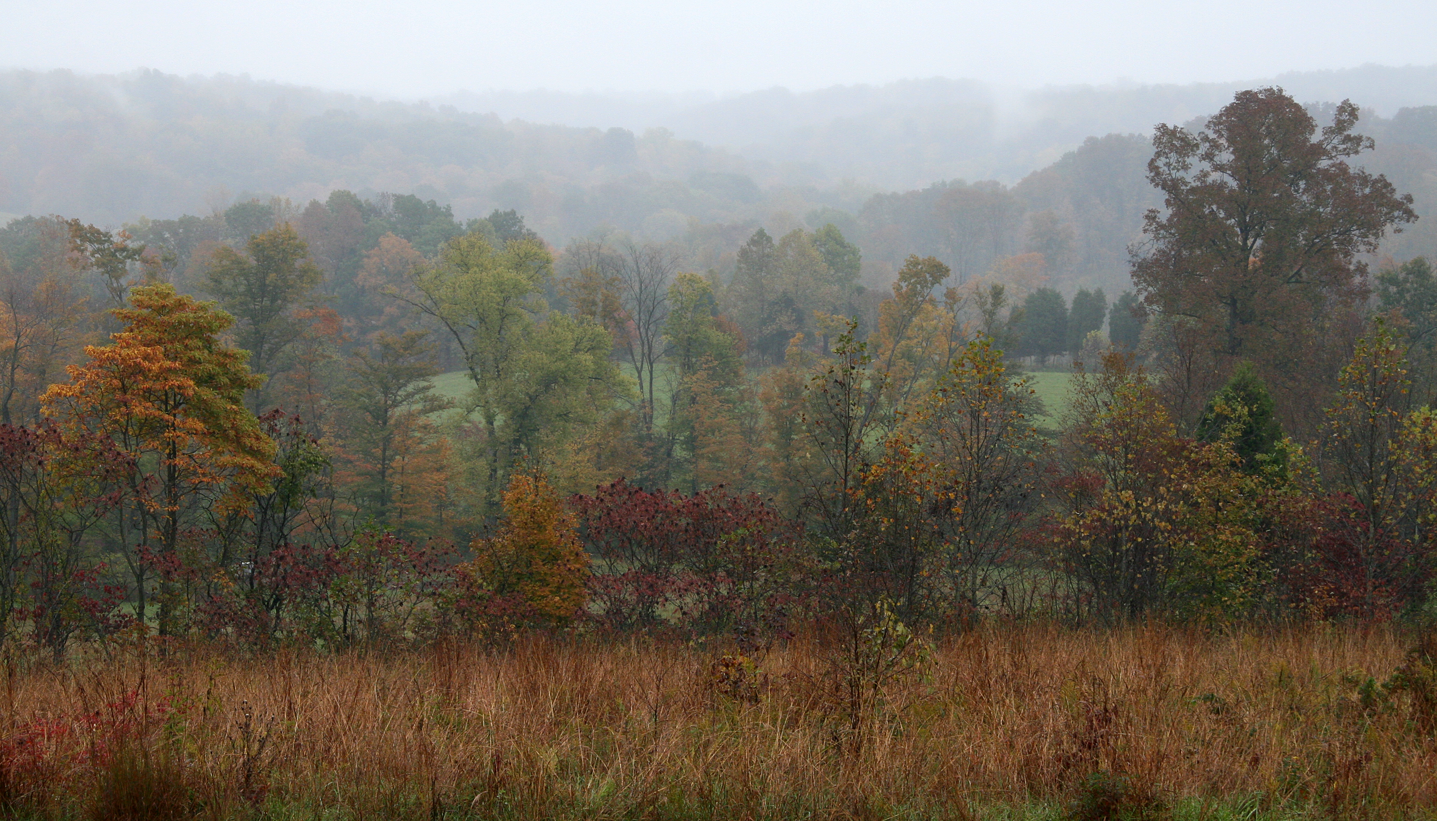 The Hoosier National Forest near Patoka Lake in southwestern Orange County, Indiana. Photo looks northeast from eastern Jackson Township, over the Painter Creek valley and toward Greenfield Township.